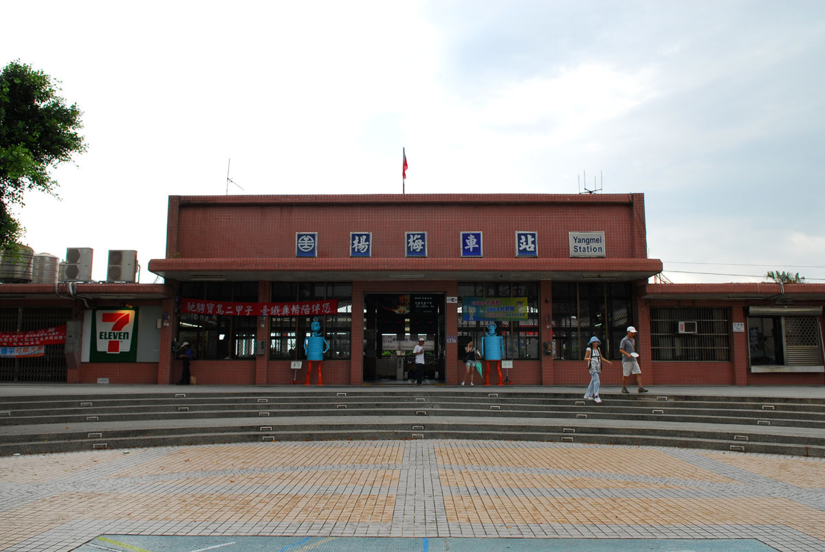 Yangmei Station is a local train station of Taiwan's Western main rail line. The station is located within the boundary of Yangmei Town and is the main station of the town.